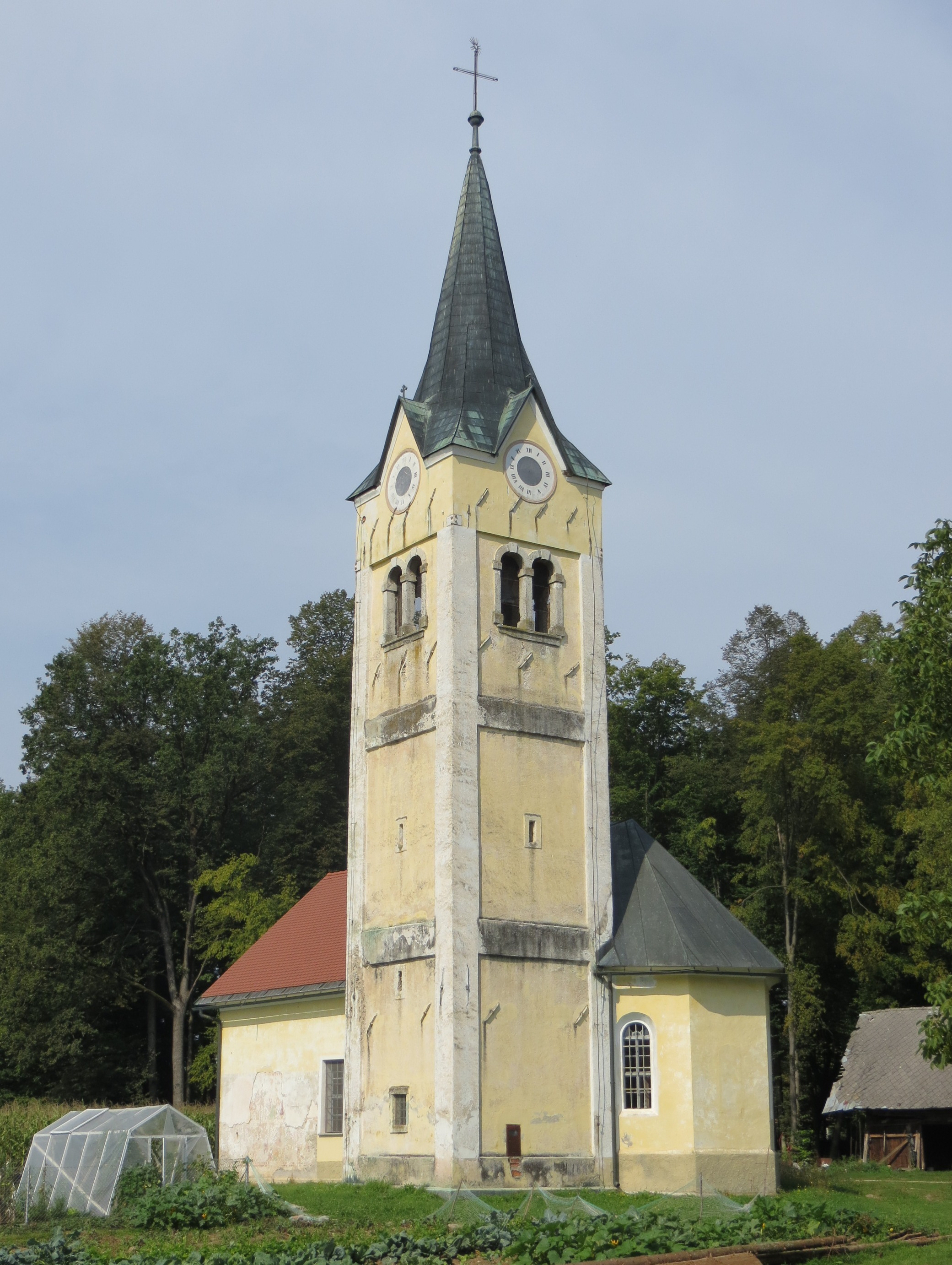 Saint Leonard's Church in Jama, Municpality of Kranj, Slovenia